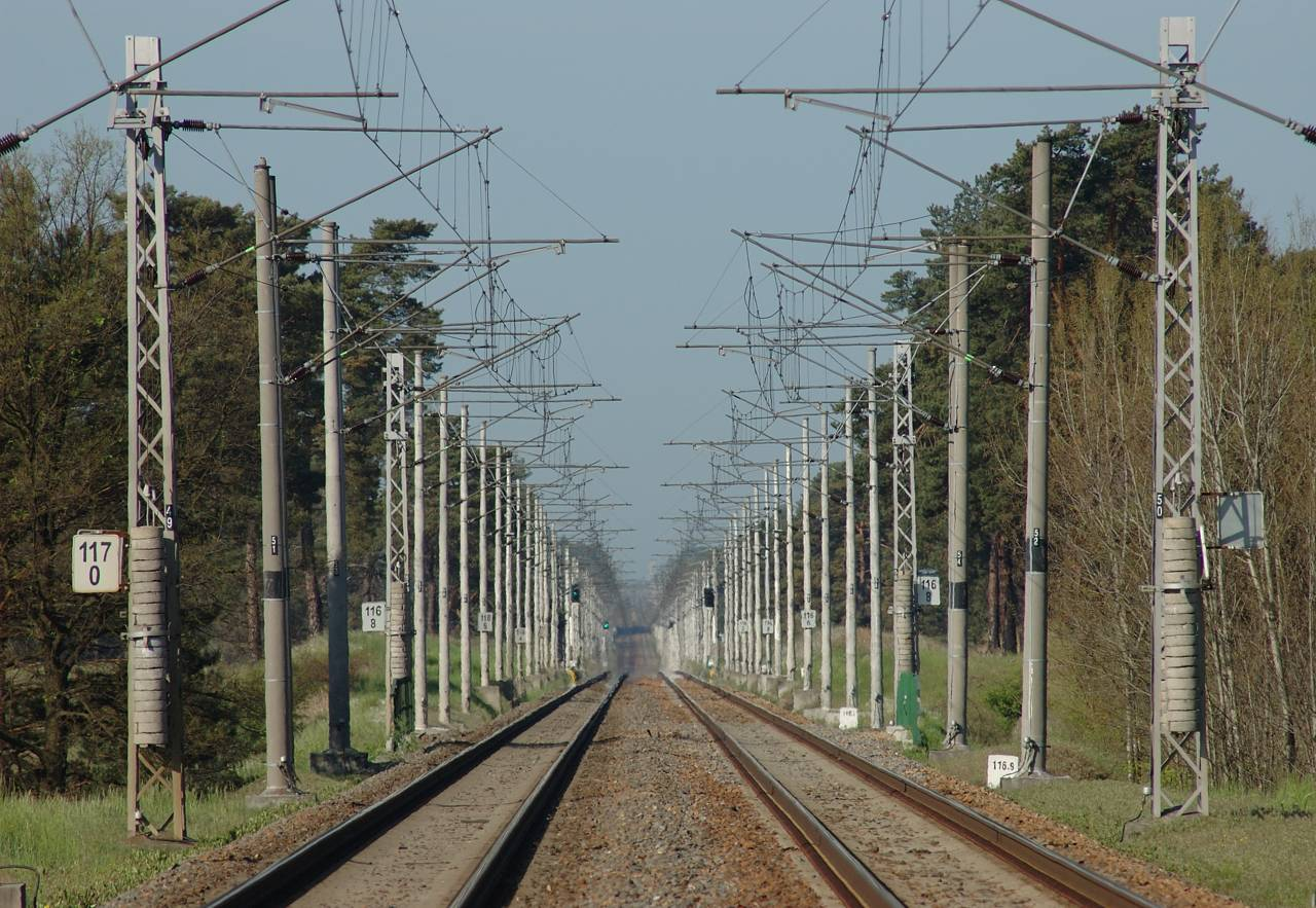 Railway line between stations Rohatec and Bzenec přívoz, Czech Republic